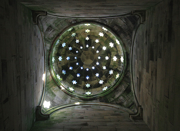 The domed roof of the Monteath Mausoleum A view inside the mausoleum up to the star studded dome.